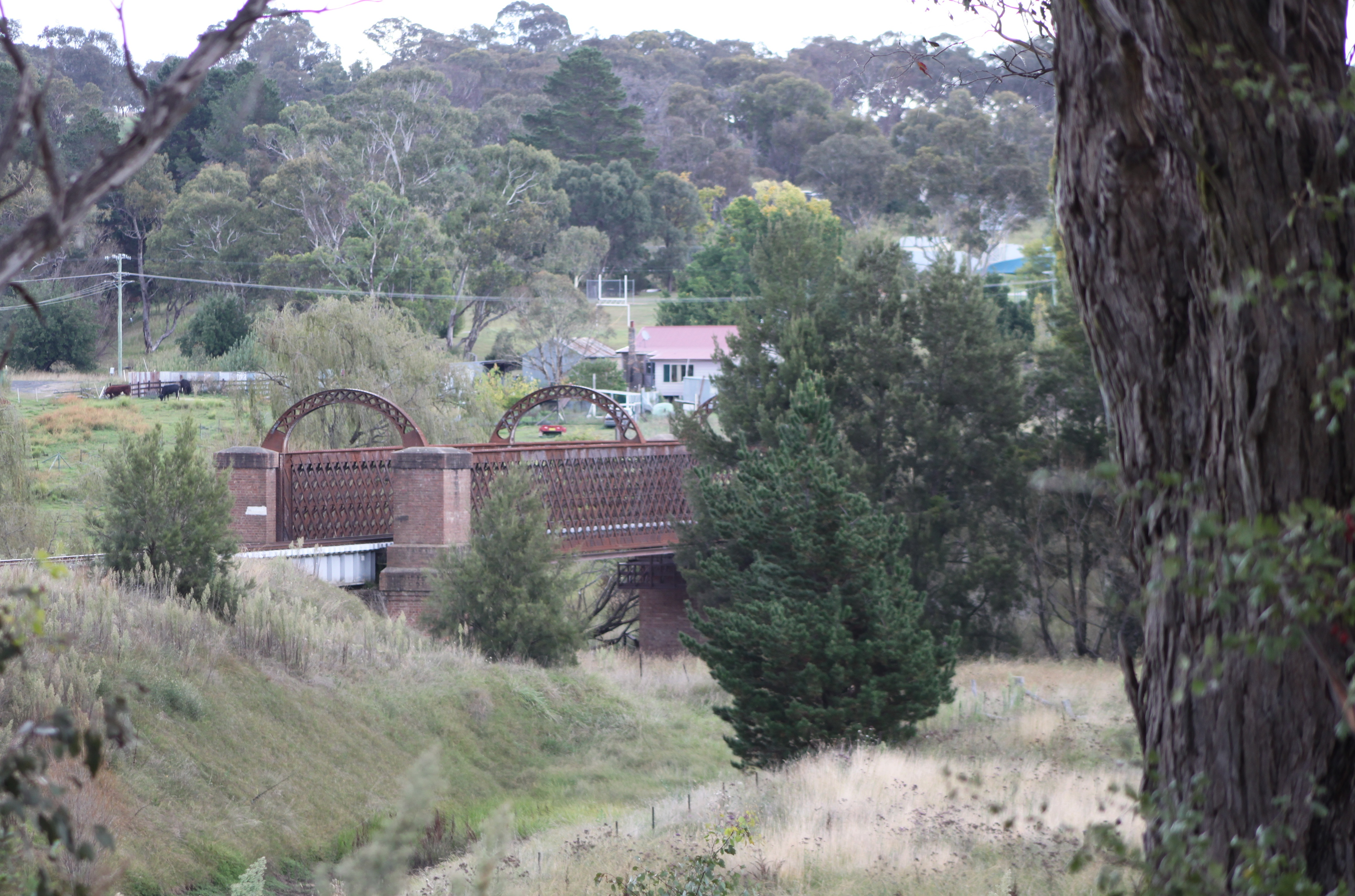 The iron railway bridge over the Macdonald River in Woolbrook, on the Main Northern line, and still in operation.